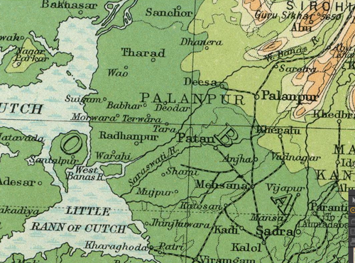 Map of the Palanpur region